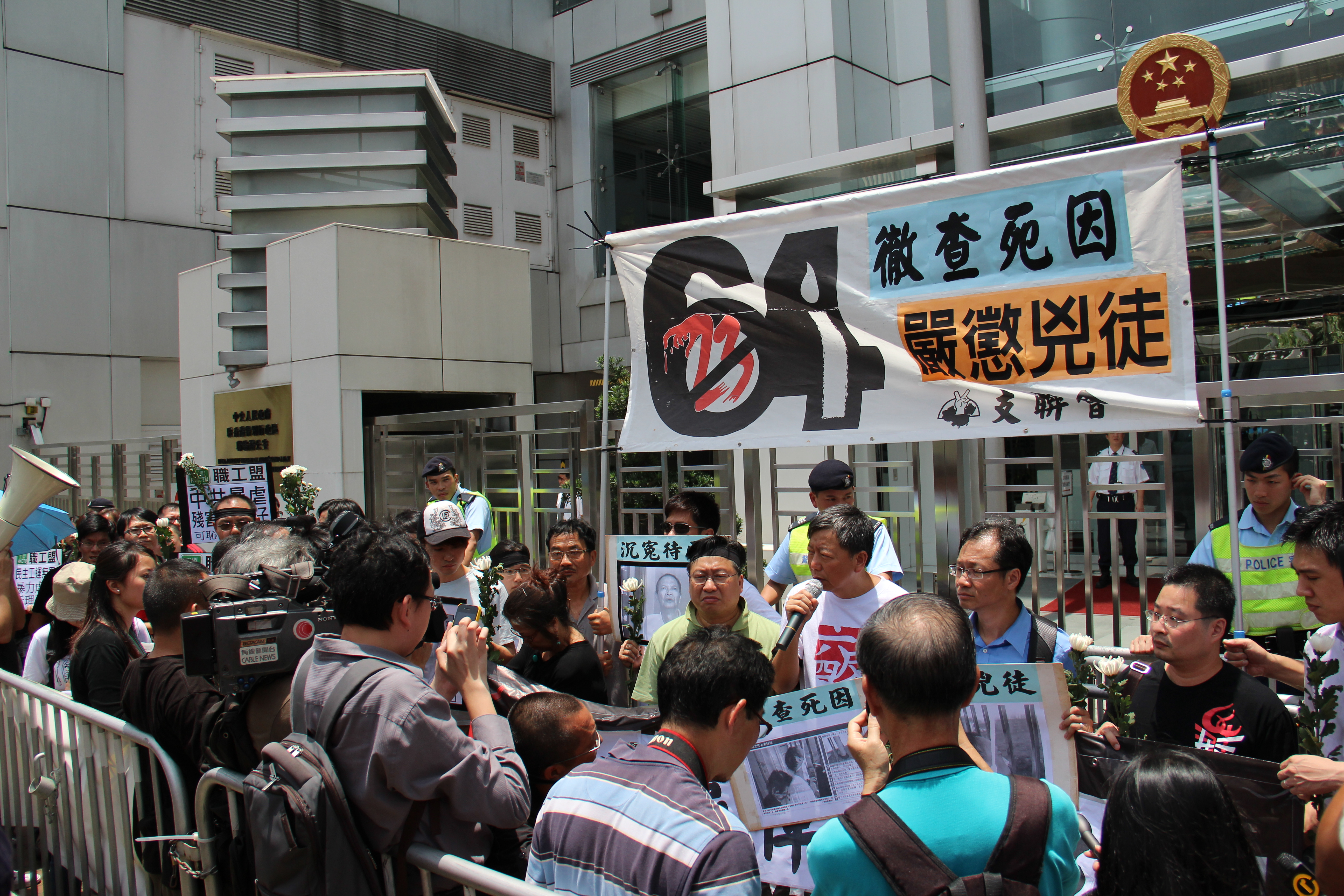 On 7 June 2012, several Hong Kong organisations protest outside the Central Government Liaison Office to demand a thorough investigation into the death of Li Wangyang, a dissident who was found dead on 6 June.